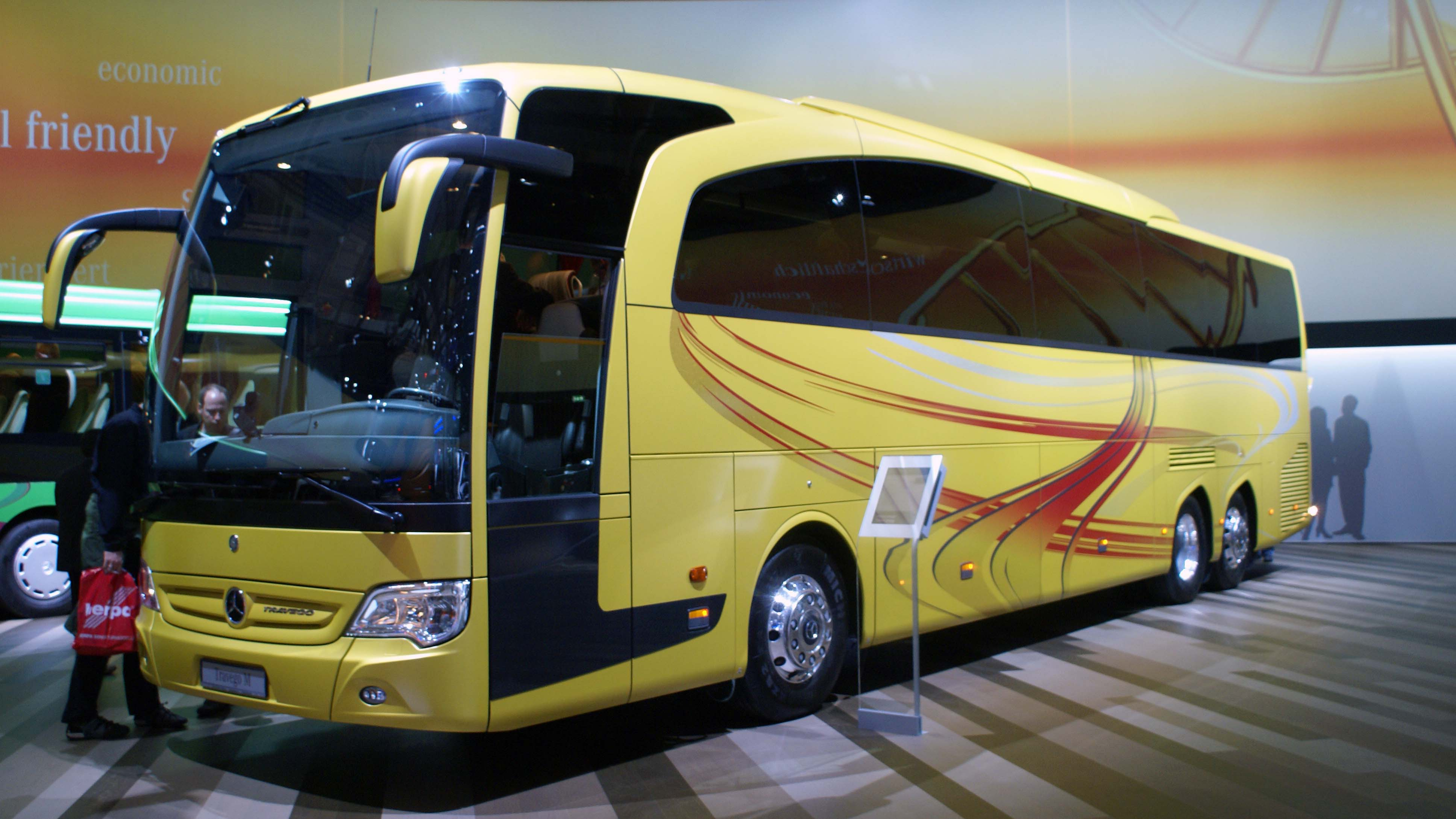 Mercedes-Benz O580 Travego M coach at IAA 2010.